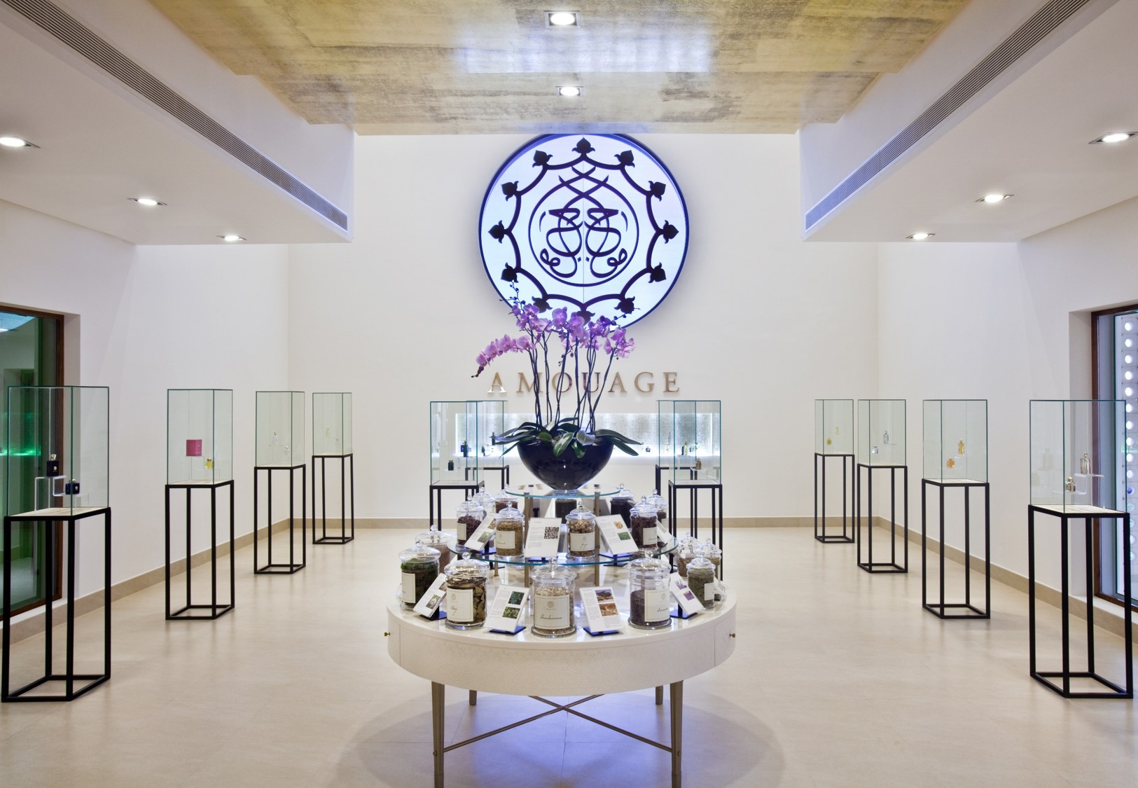 Factory & Visitor's Centre